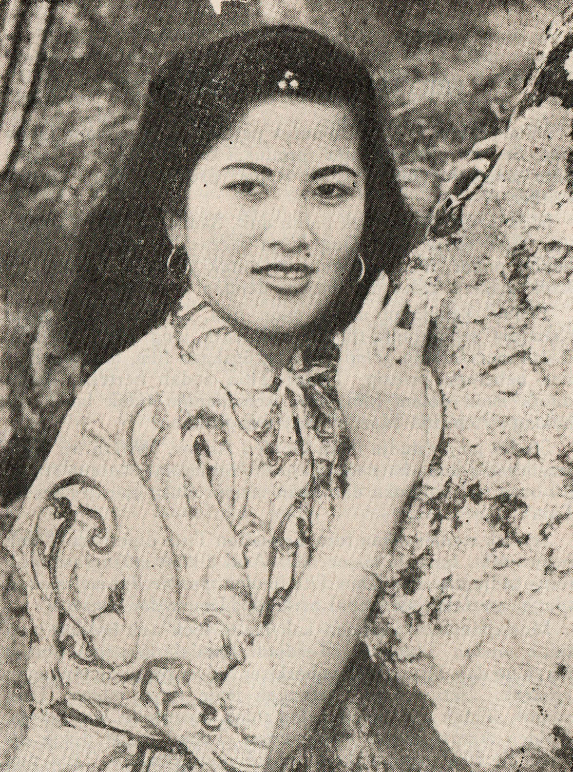 Titien Sumarni smiling